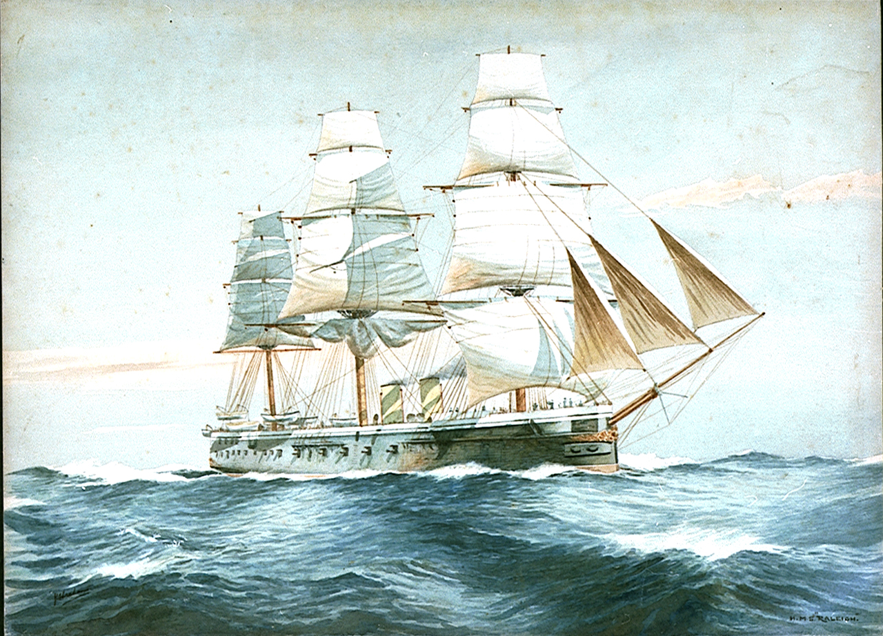 HMS Raleigh Iron Steam Frigate (screw) 5200 tons 280' X 48.5', 2-9", 20-64 pdr Built at Chatham DY Launched 1-3-1873. Sold 1905 to BU Drawing